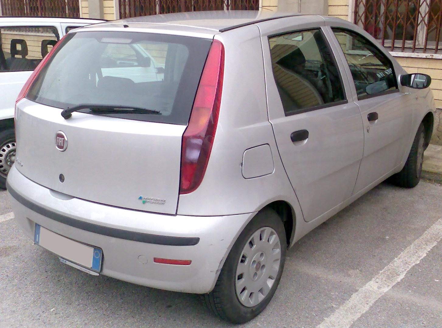 2009 Fiat Punto Classic Natural Power